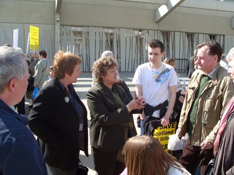 Cathie Craigie MSP and Cathy Peattie MSP Convener of the Equal Opportunities Committee talk to carers outside the Scottish parliament